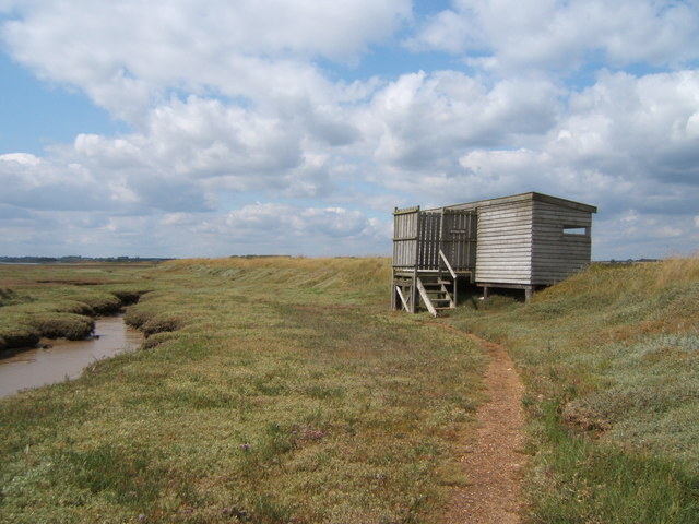 Dovey's Hide at RSPB Havergate Island Reserve.